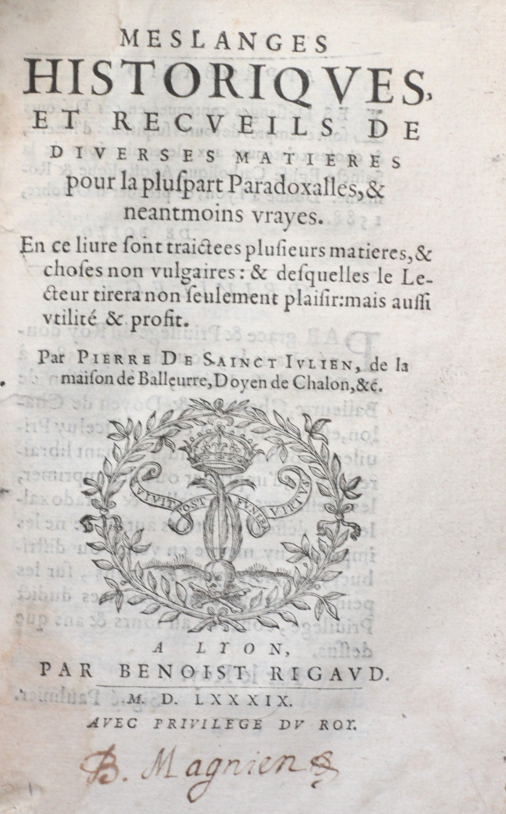 Pierre de Saint-Julien: Mélanges Historiques